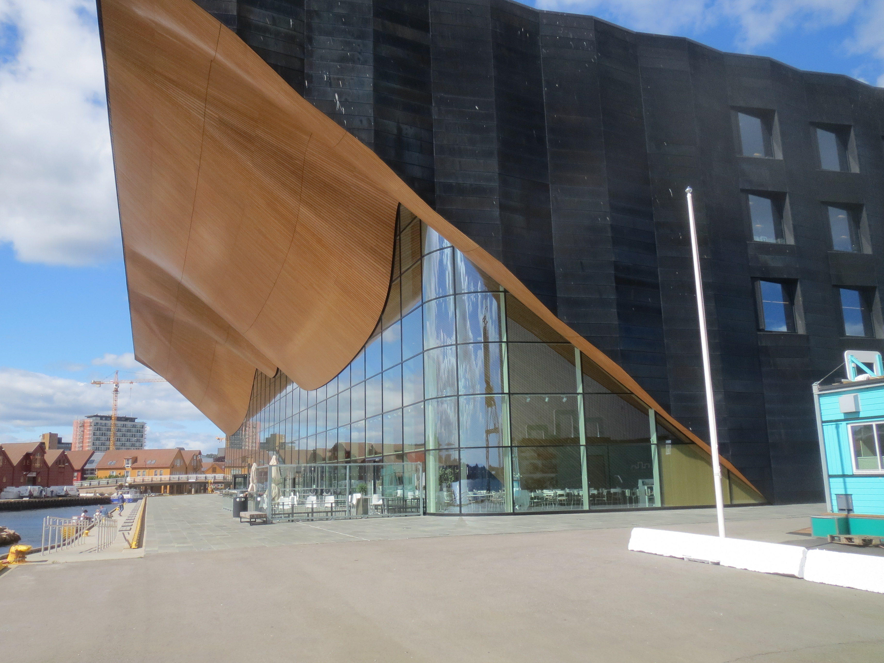 Kilden Performance Art Centre, Kristiansand, Norway, june 2017